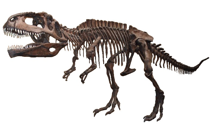 Giganotosaurus skeleton replica, Australian Museum Sydney